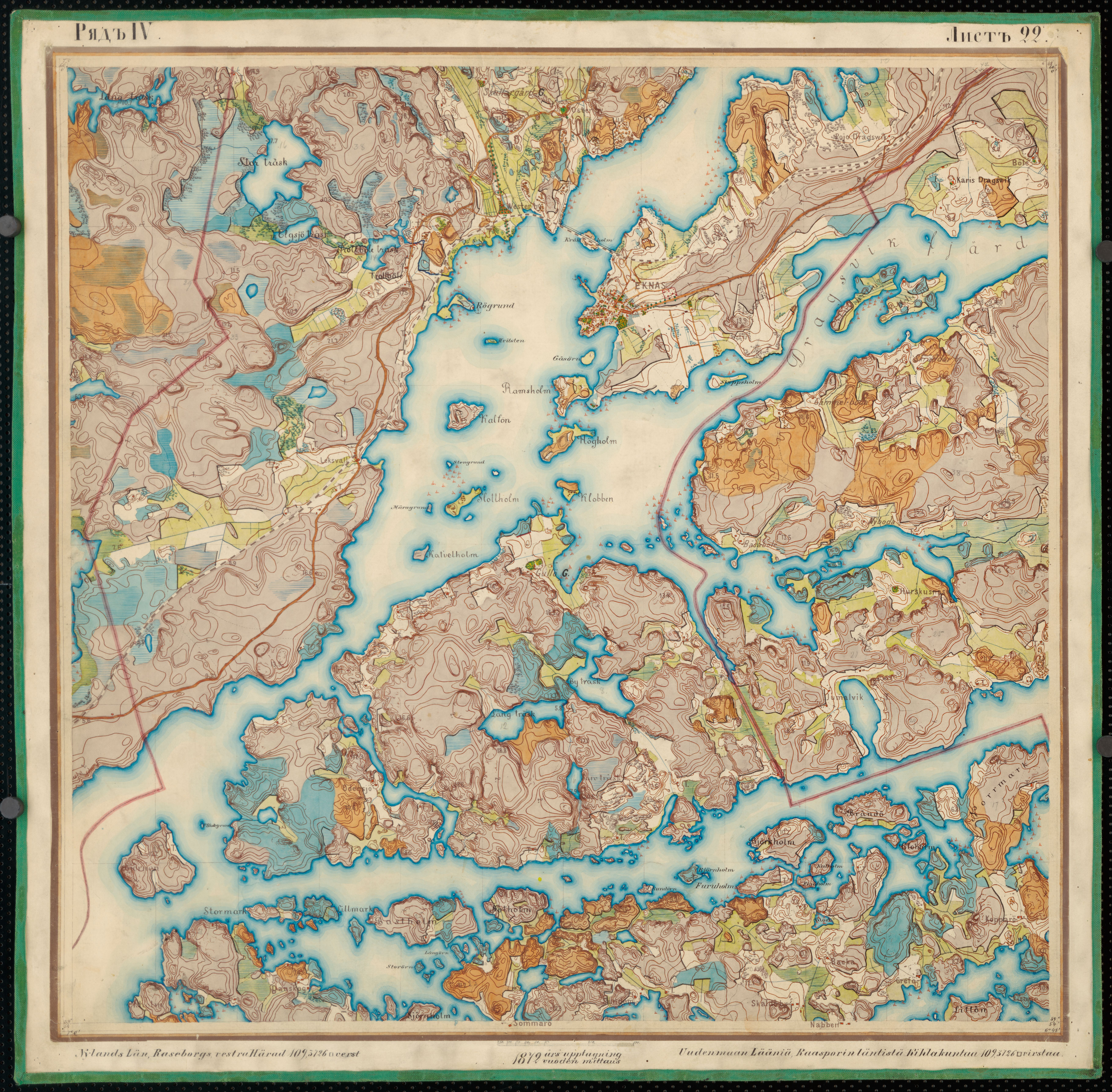 The Senate Atlas is a series of maps of Southern Finland drawn by the Russian Army topographic troops in the end of the 19th and the beginning of the 20th centuries in scale 1:21 000. The Senate Atlas consists of 2 individual series with different colouring traditions, the Russian and the Finnish.